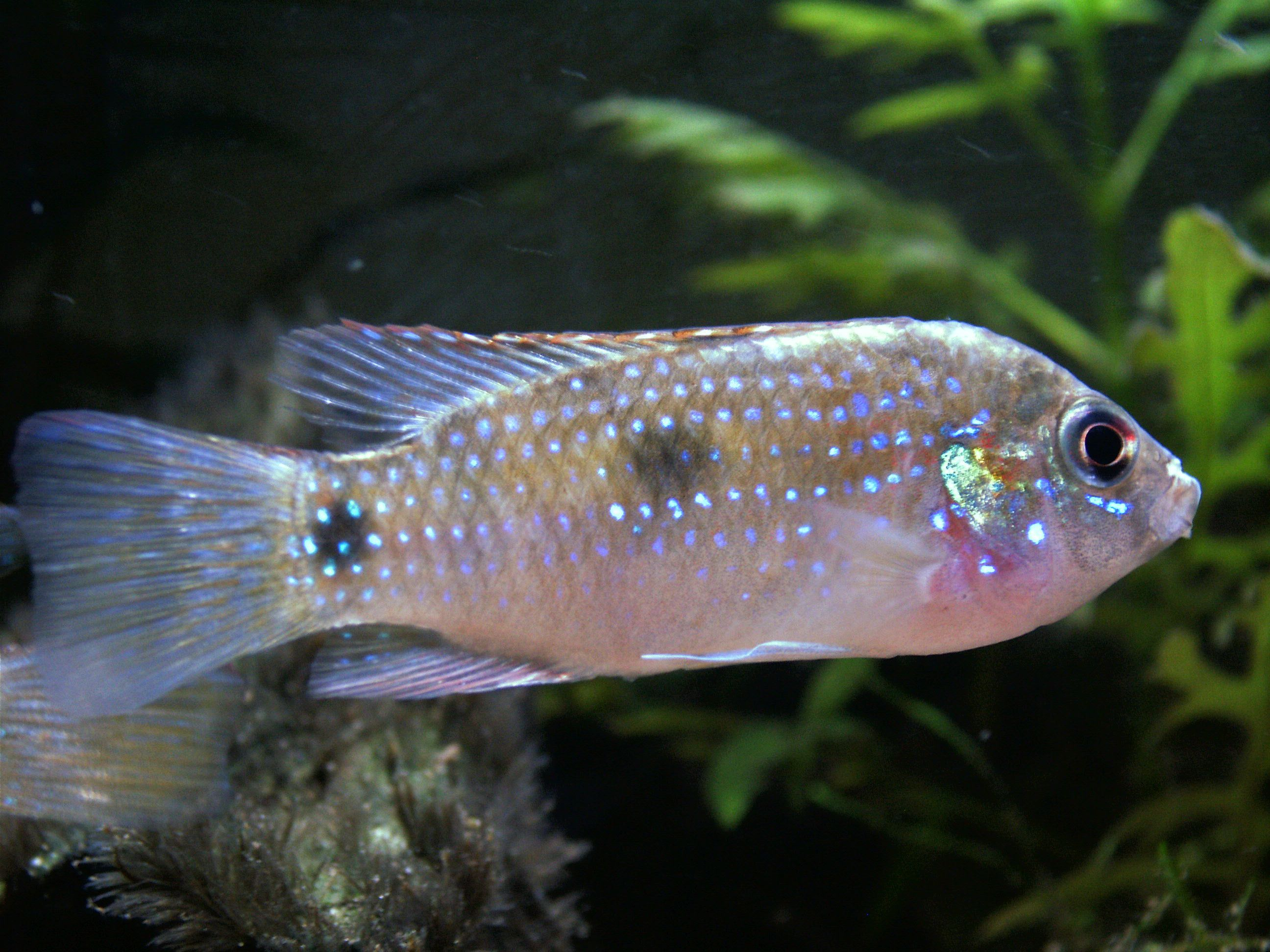 Anomalochromis thomasi-Weibchen